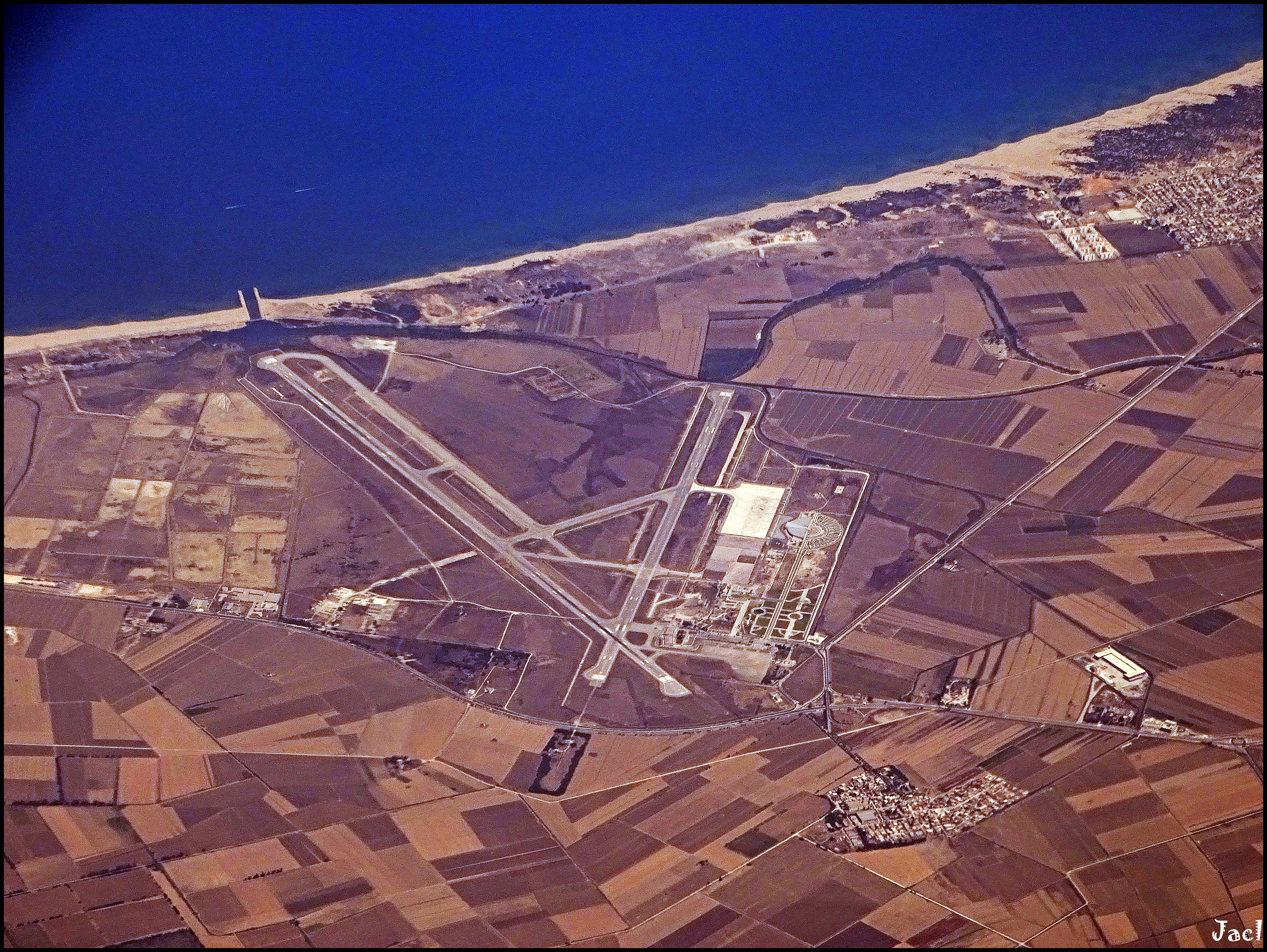 Annaba from the plane (Flight Malta-Madrid)